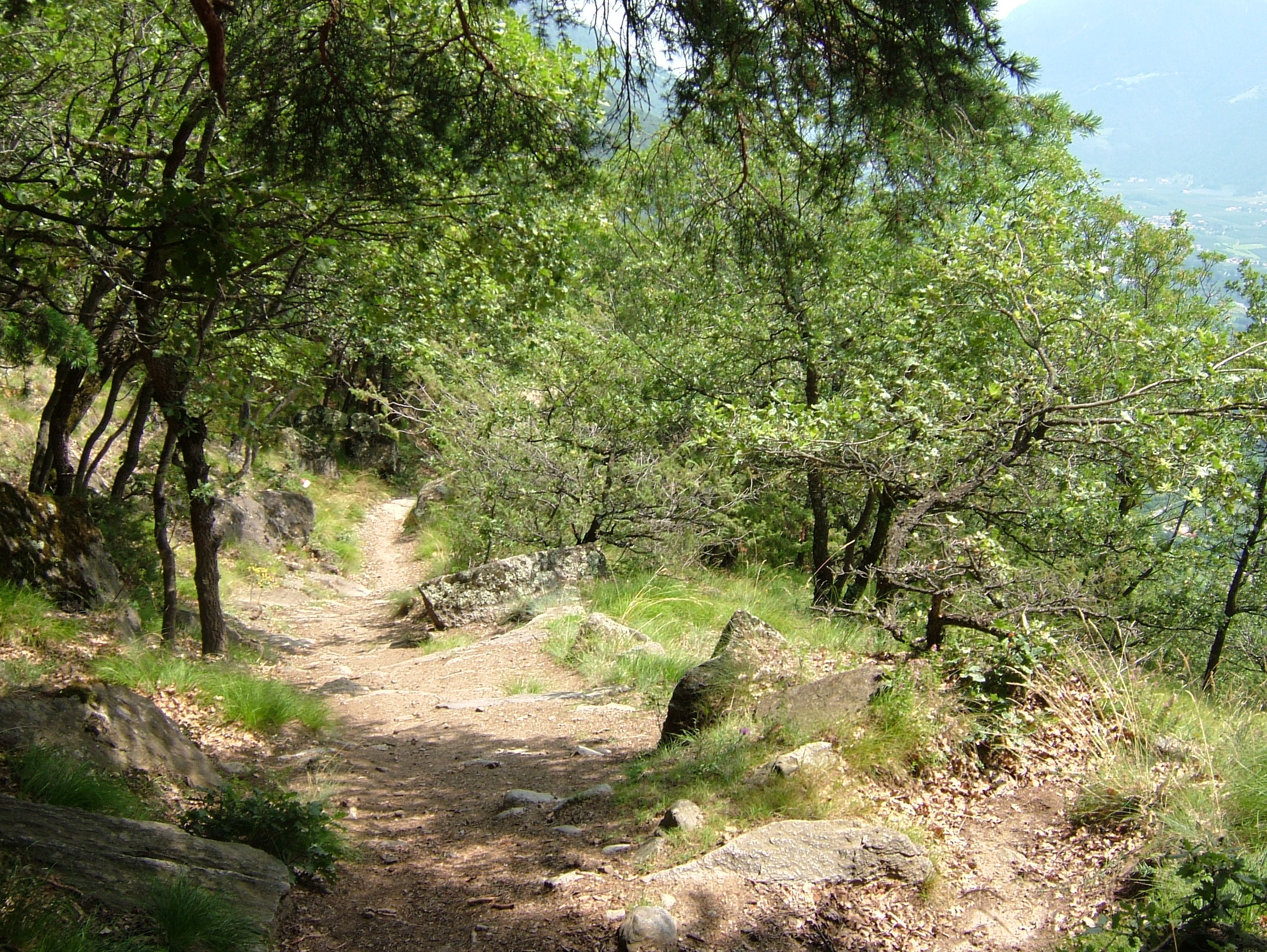 Hiking in Naturns Trail from Unterstell to Naturns